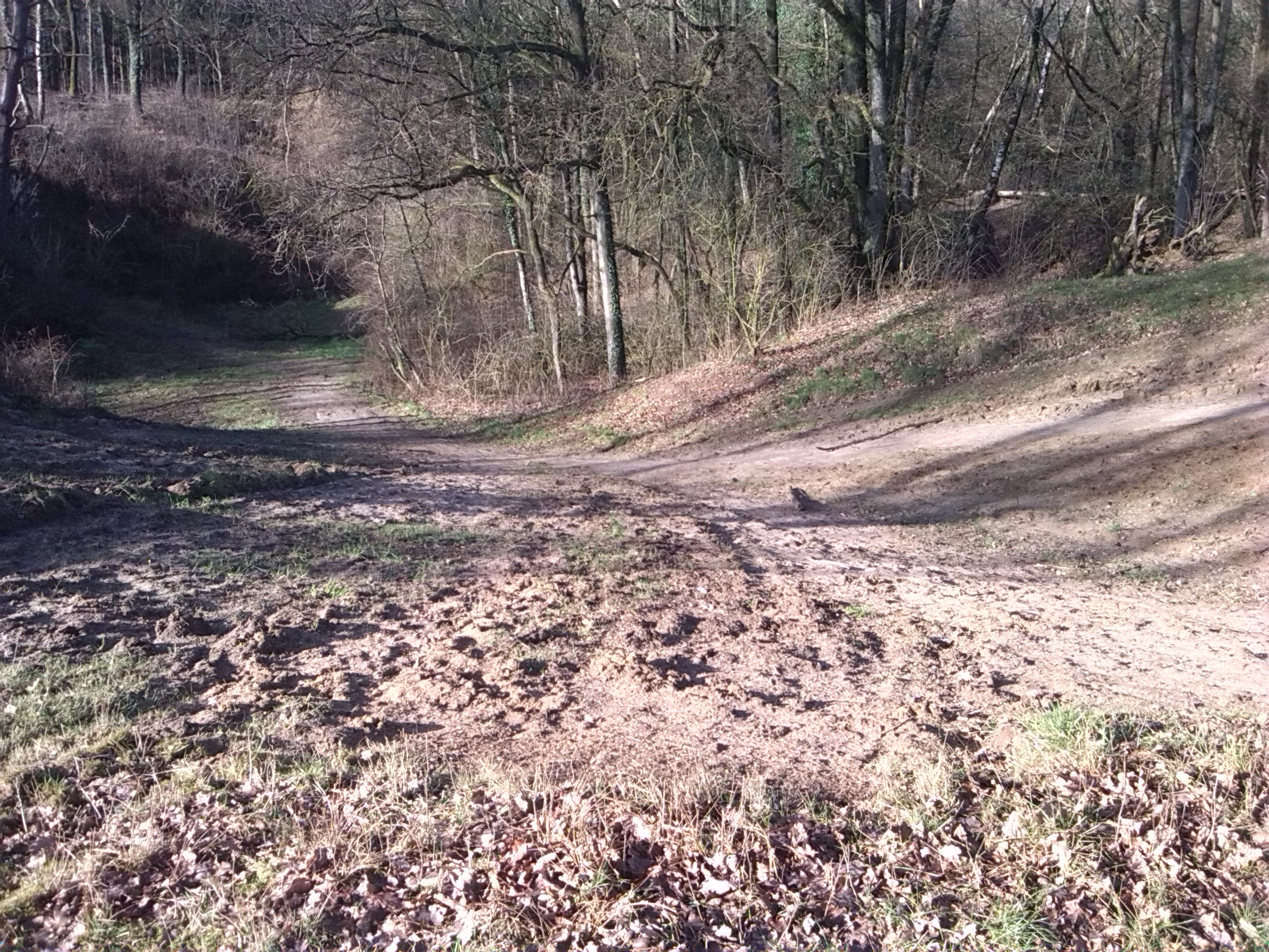 De bodem van een leemkuil op de Herikerberg in Overijssel